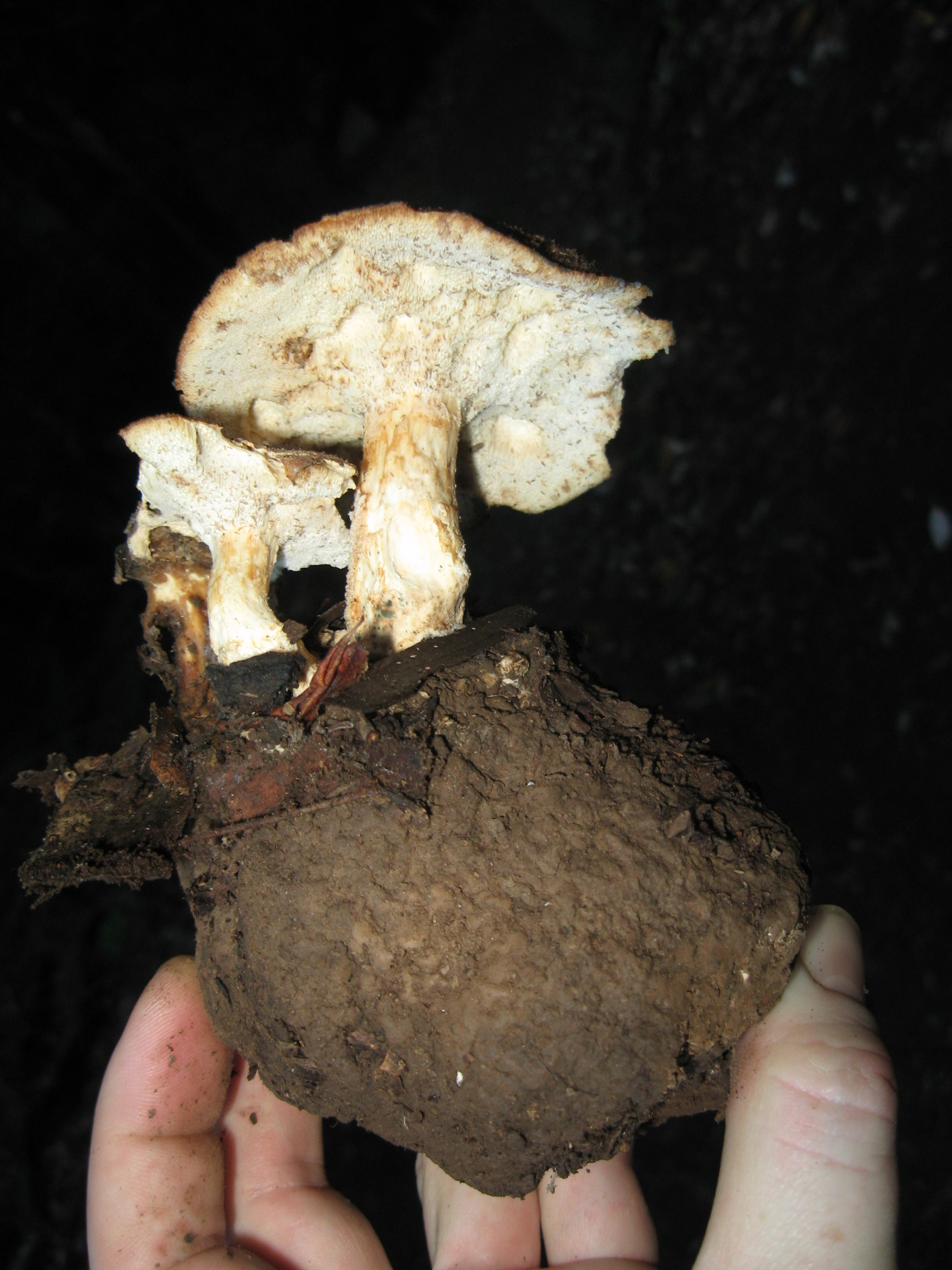 Polyporus tuberaster (Jacq.) Fr.